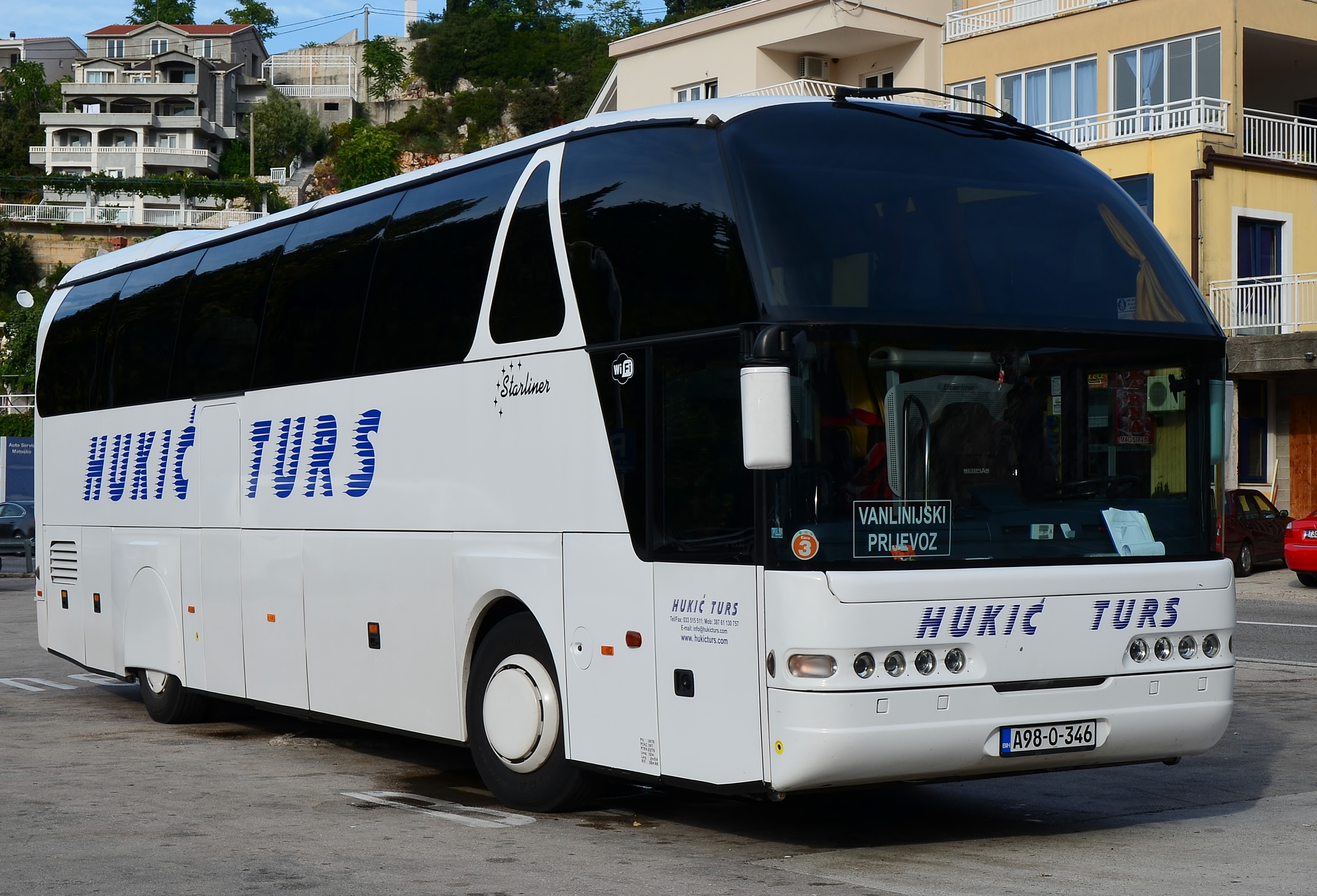 Neoplan bus in Neum, Bosnia and Herzegovina